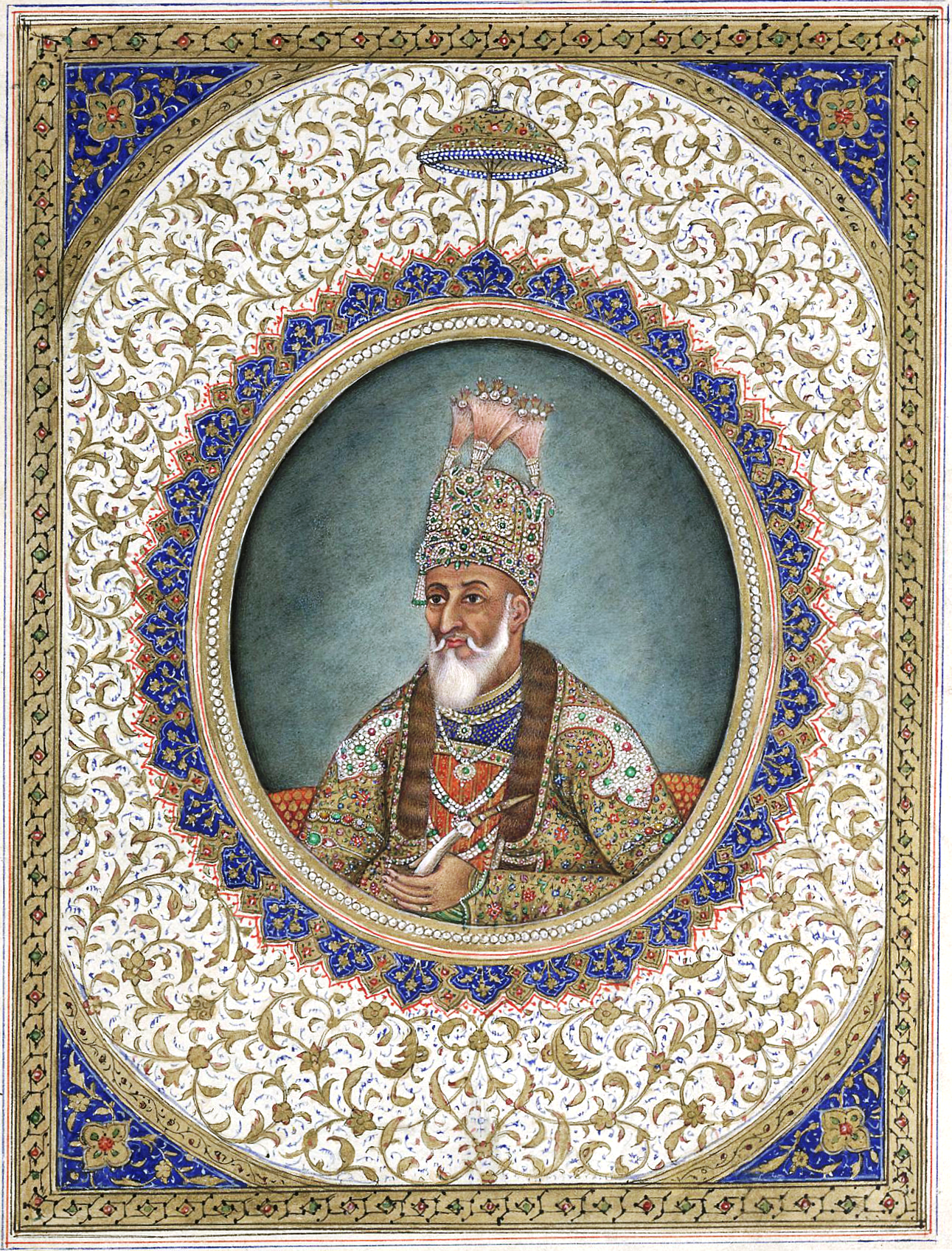 Portrait of the Emperor Bahadur Shah II. Inscribed above: Abu Zafar Siraj al-Din Muhammad Bahadur Shah Padshah Ghazi. Inscribed below: The Emperor Bahadoor Shah 1844. This file has been provided by the British Library from its digital collections. This tag does not indicate the copyright status of the attached work. A normal copyright tag is still required. See Commons:Licensing.